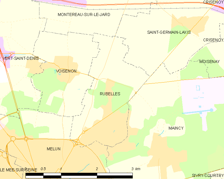 Map of French municipality Rubelles